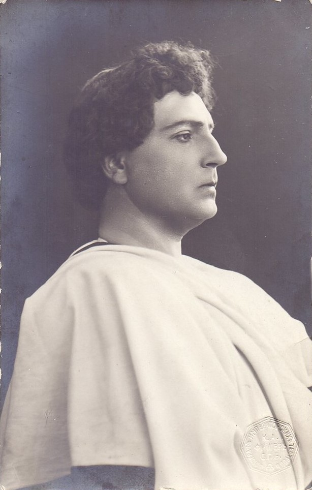 Nikolai Rimsky-Korsakov - Servilia - Ivan Ershov as Valerius, 1902